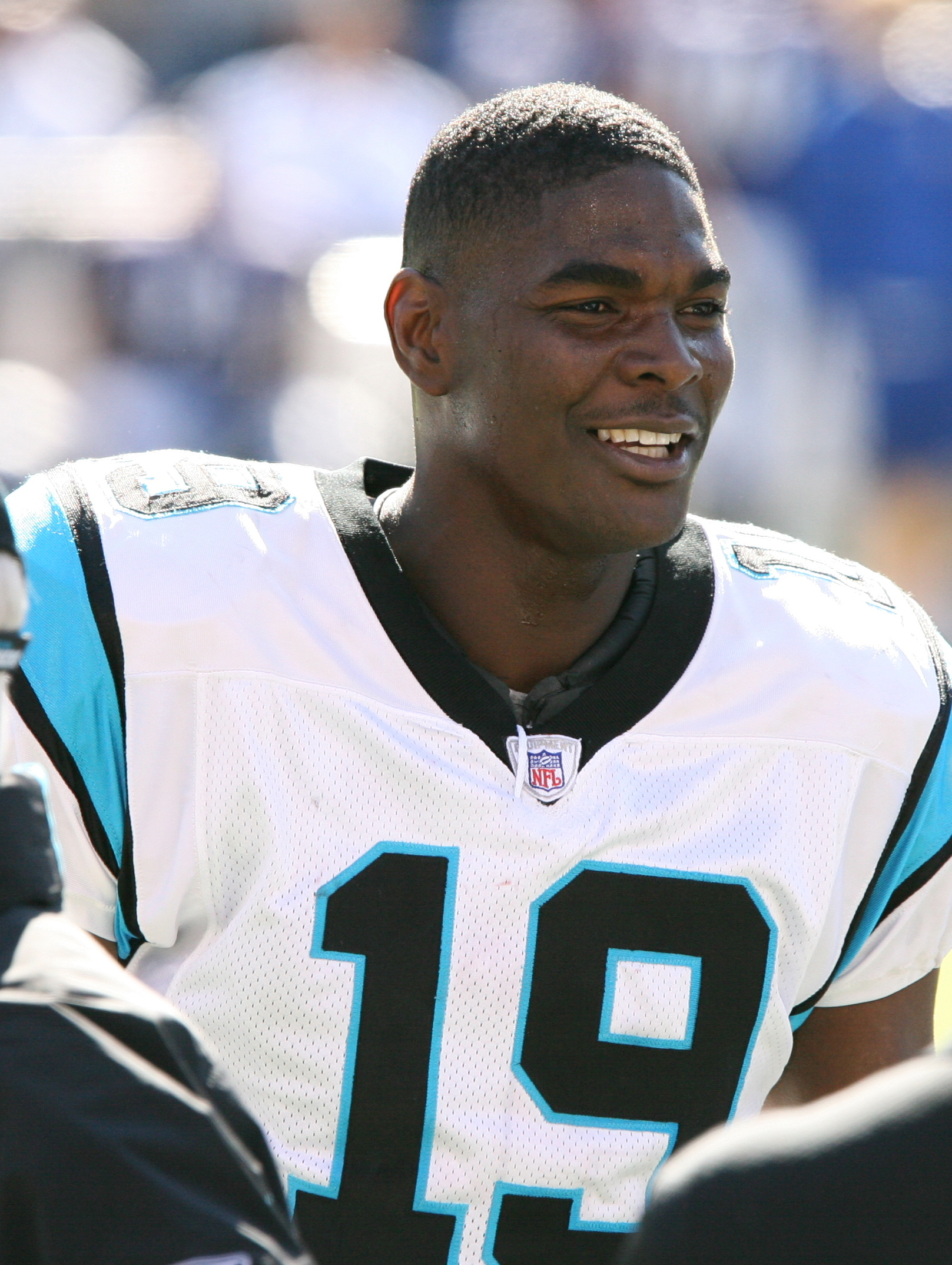 Keyshawn Johnson, American football wide receiver for the Carolina Panthers (at time of photo)